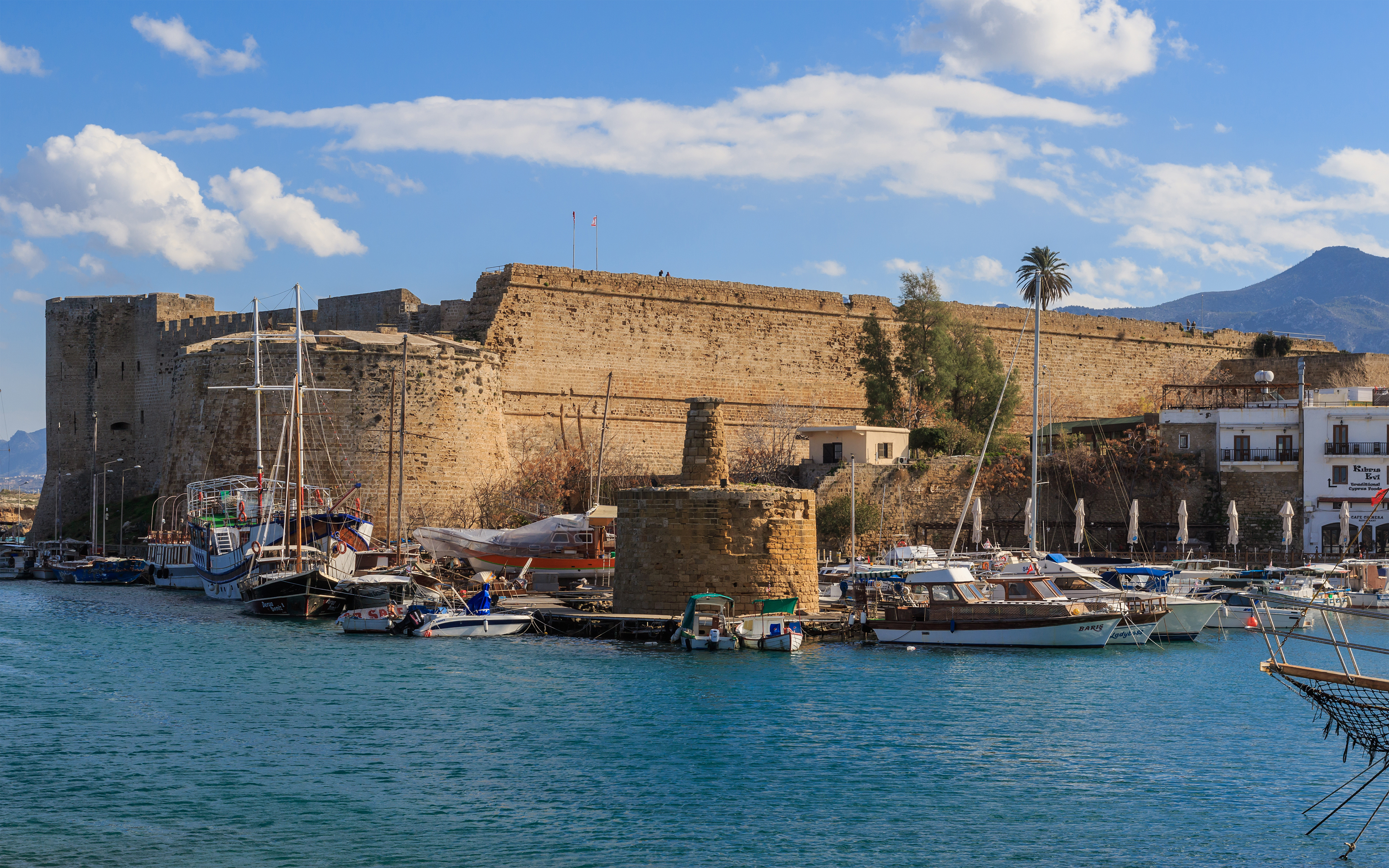 Exterior of the castle in Kyrenia, Cyprus